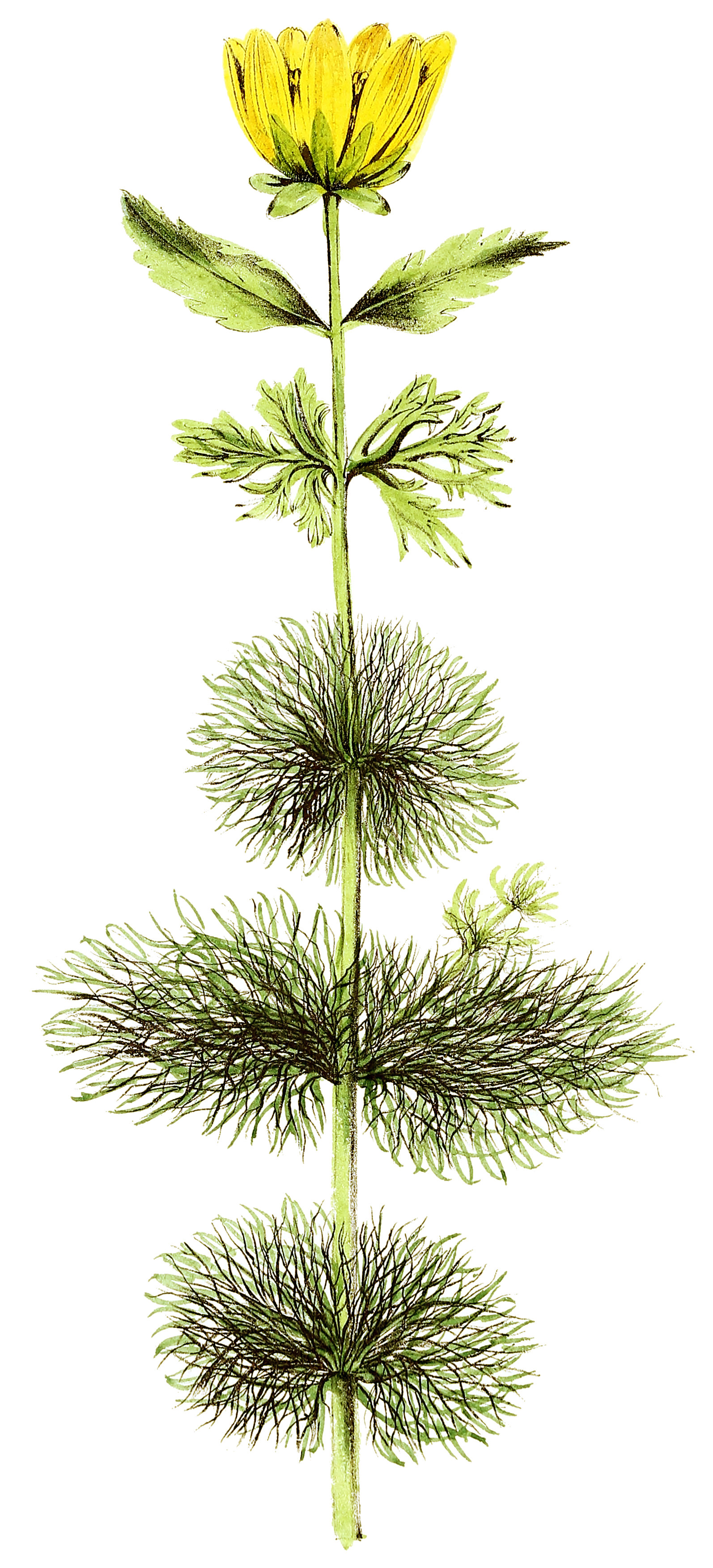 Drawing/water-color of a Beck's bidens.